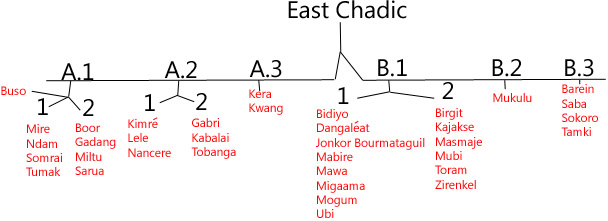 A chart of the East Chadic branch of the Afroasiatic languages